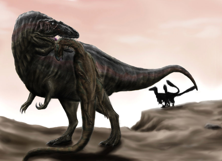 Illustration of the carcharodontosaurid Acrocanthosaurus atokensis dragging a dead Tenontosaurus away from a pair of Deinonychus, and other possibly scavengers.